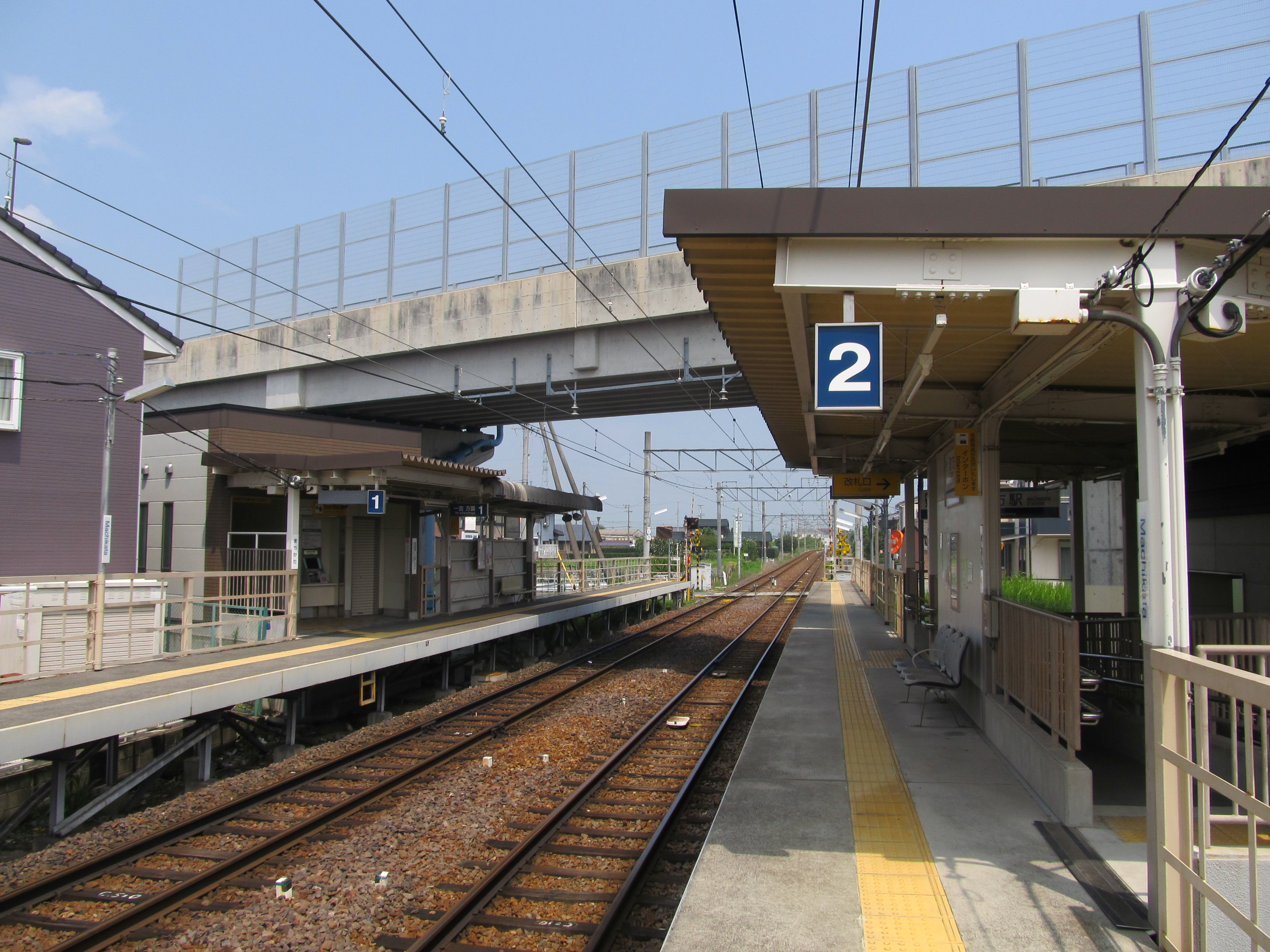 Nagoya Railroad Bisai Line Machikata Station Platform.